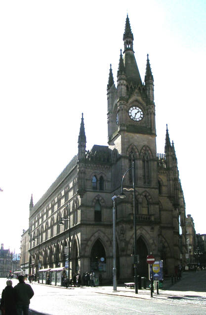 Bradford Wool Exchange Built 1864-7 by Lockwood and Mawson. No longer used for its original purpose, it now houses a variety of small businesses.